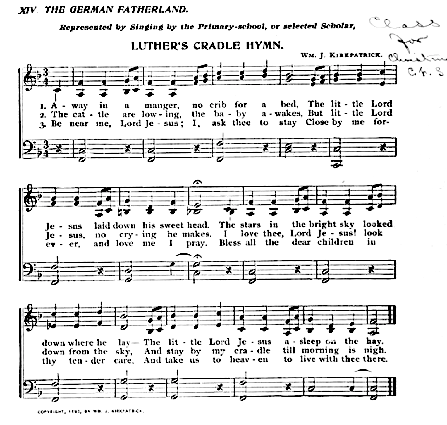 Musical setting of "Away in a Manger" by William J. Kirkpatrick (1895)